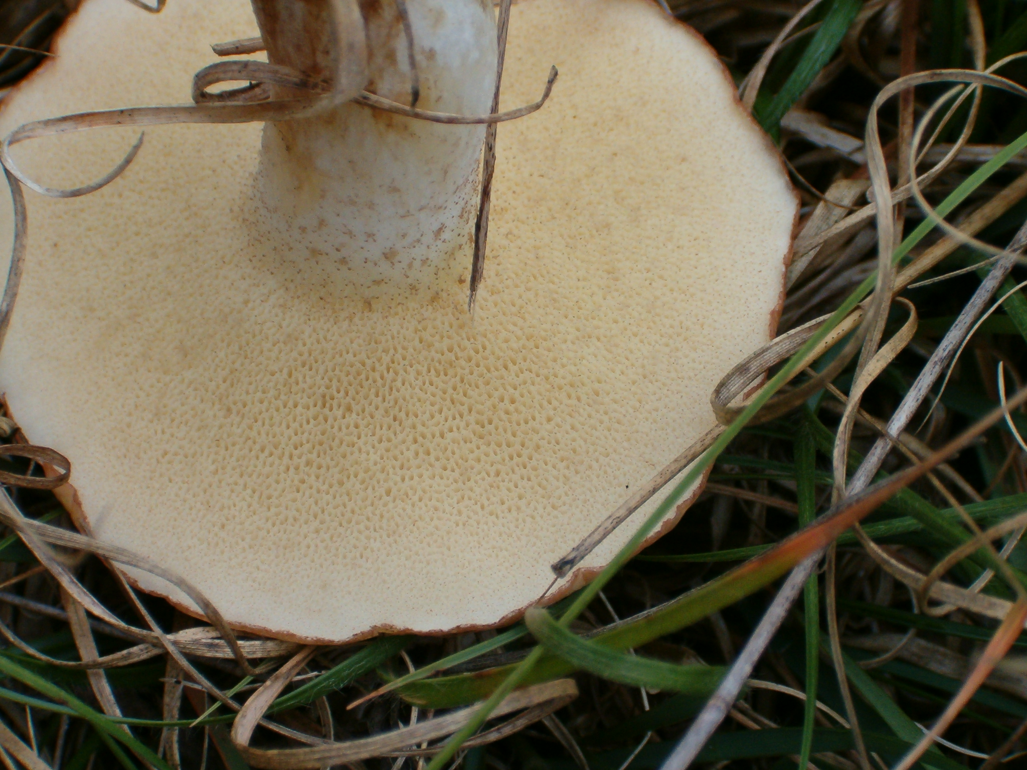 Suillus placidus (Bonord.) Singer Image location: Forest near Elgin St., Pembroke, Ontario, Canada A whitish bolete. It was small, and in meadow near mixed woods rather than in the woods proper. I got an excellent photo of the pore surface. Recognized by sight: If so, it should have grown close to Pinus strobus (white pine) or anything else with 5 needles.. For more information about this, see the observation page at Mushroom Observer.